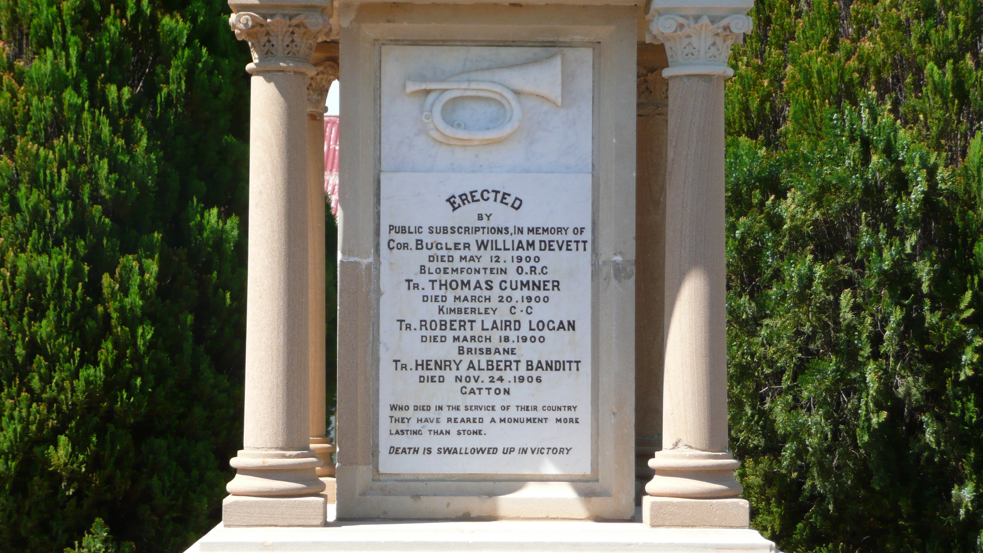 Gatton Boer War Memorial - dedication